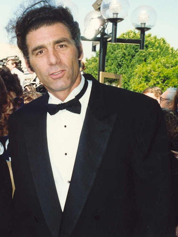 Michael Richards at the 44th Emmy Awards